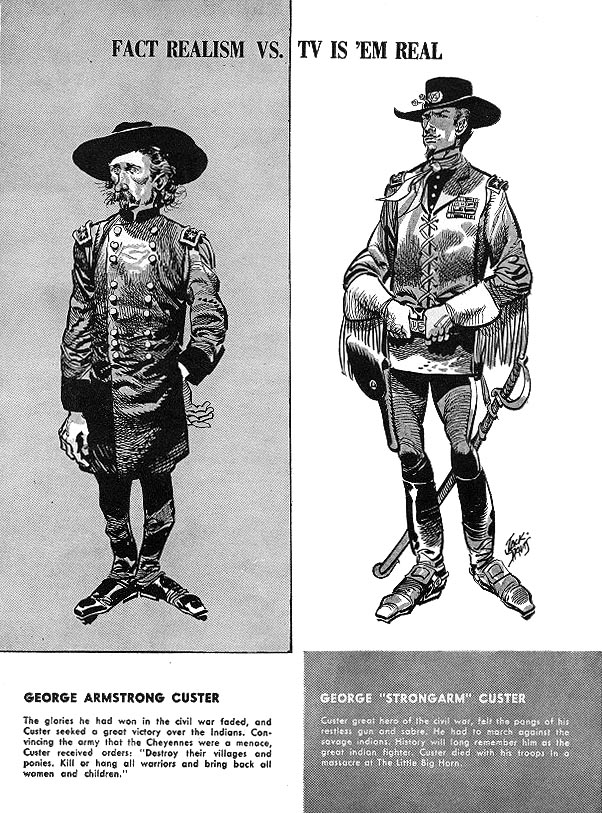 Jack Davis artwork from This Magazine is Crazy vol. 4, number 8, page 19 (Charlton, March 1959). The magazine appeared to be a good-natured parody of Mad, utilizing the talents of some of the latter's artists and writers.